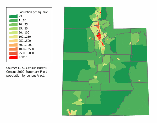 Utah state population density map based on Census 2000 data. See the data lineage for a process description.